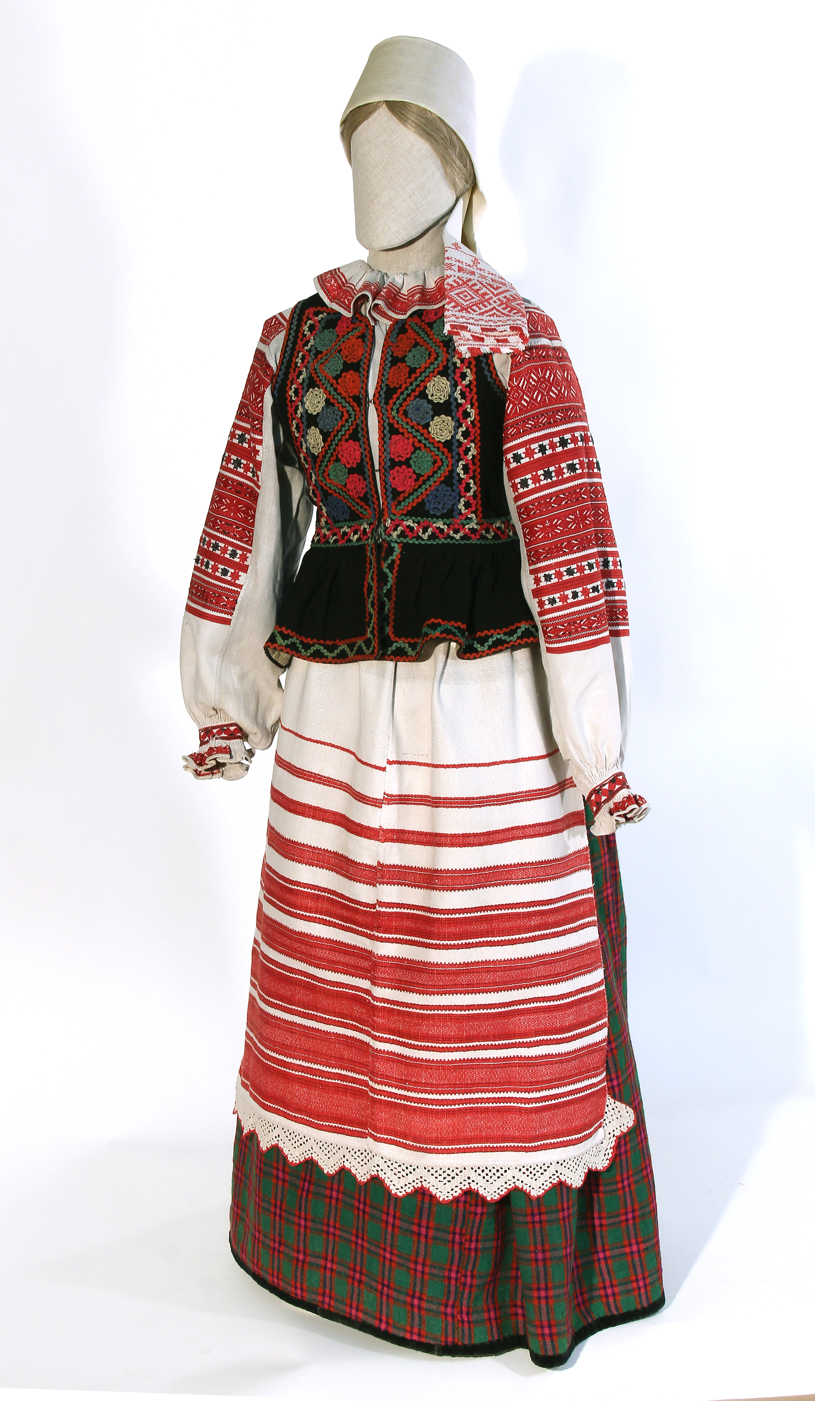 Traditional summer woman clothing of the Belarusian peasants (Kalinkavichy District/Kalinkavičy District, Belarus), XIXth century. Location: Museum of Belarusian Folk Art (Minsk city, Belarus)